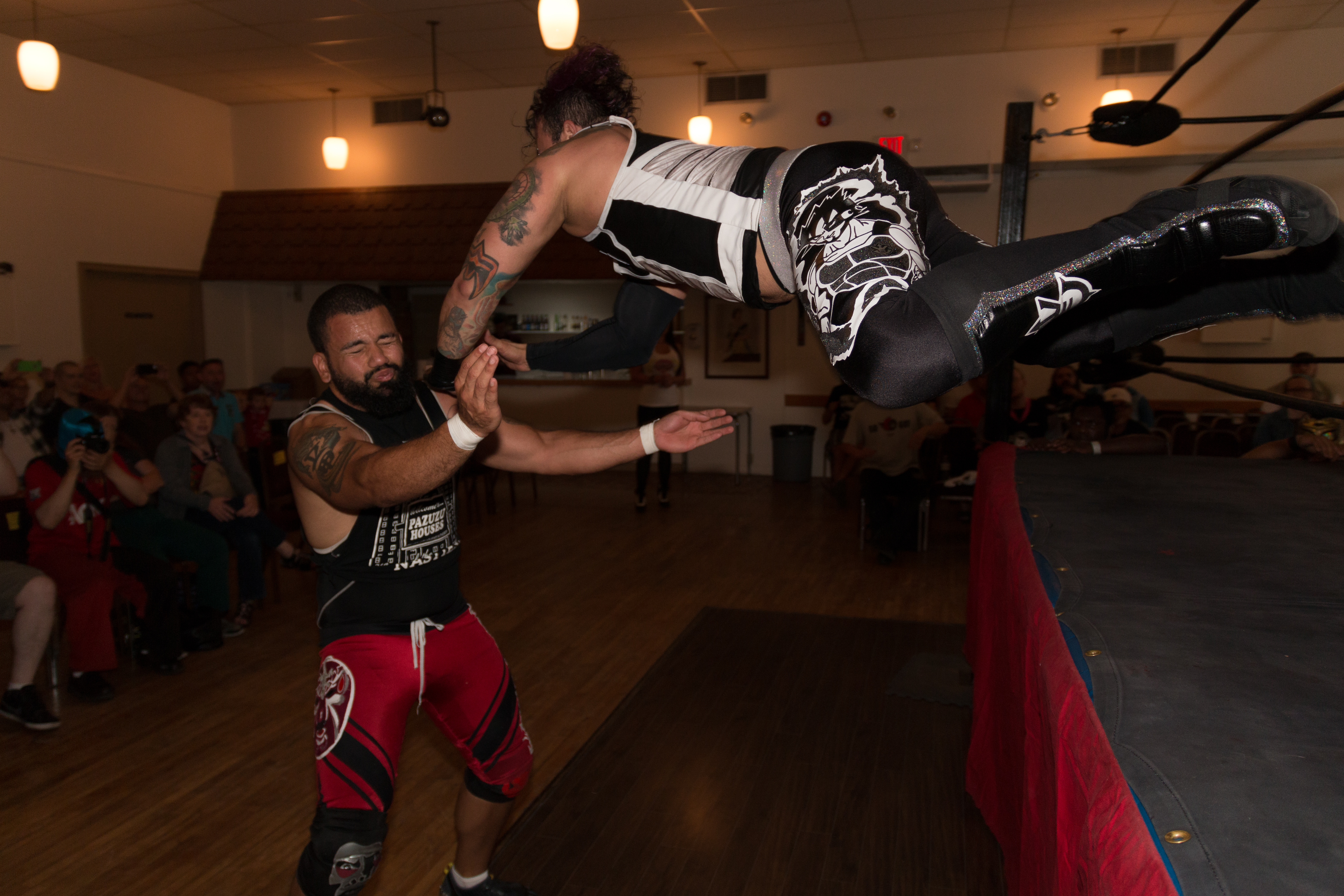 Mr 450 executing a dive onto one of the member of the tag team EYFBO at a LuchaTO show in Etobicoke, ON